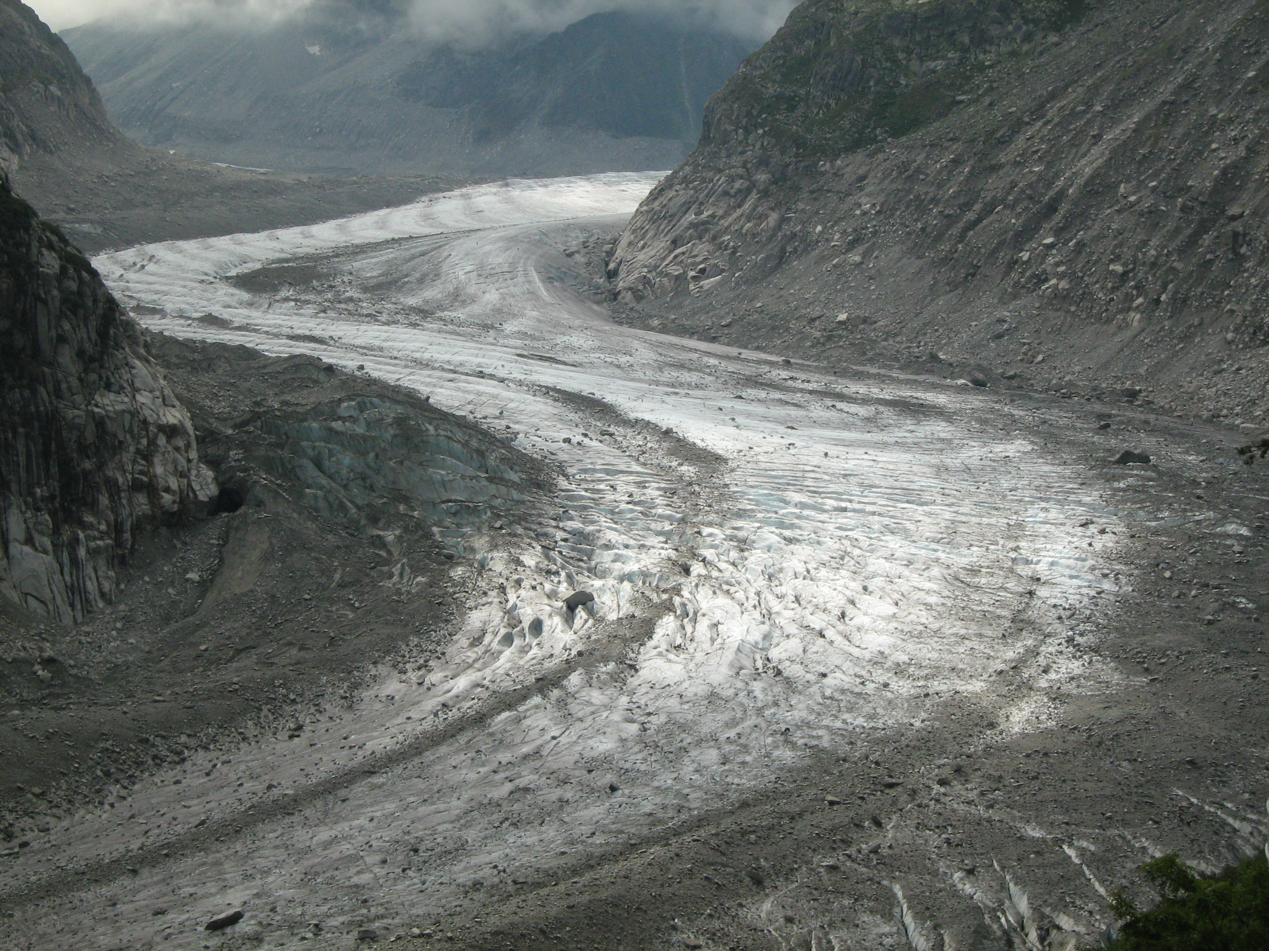 Mer de Glace seen from Montenvers. August 2007.